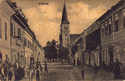 Old picture od city Ribnica